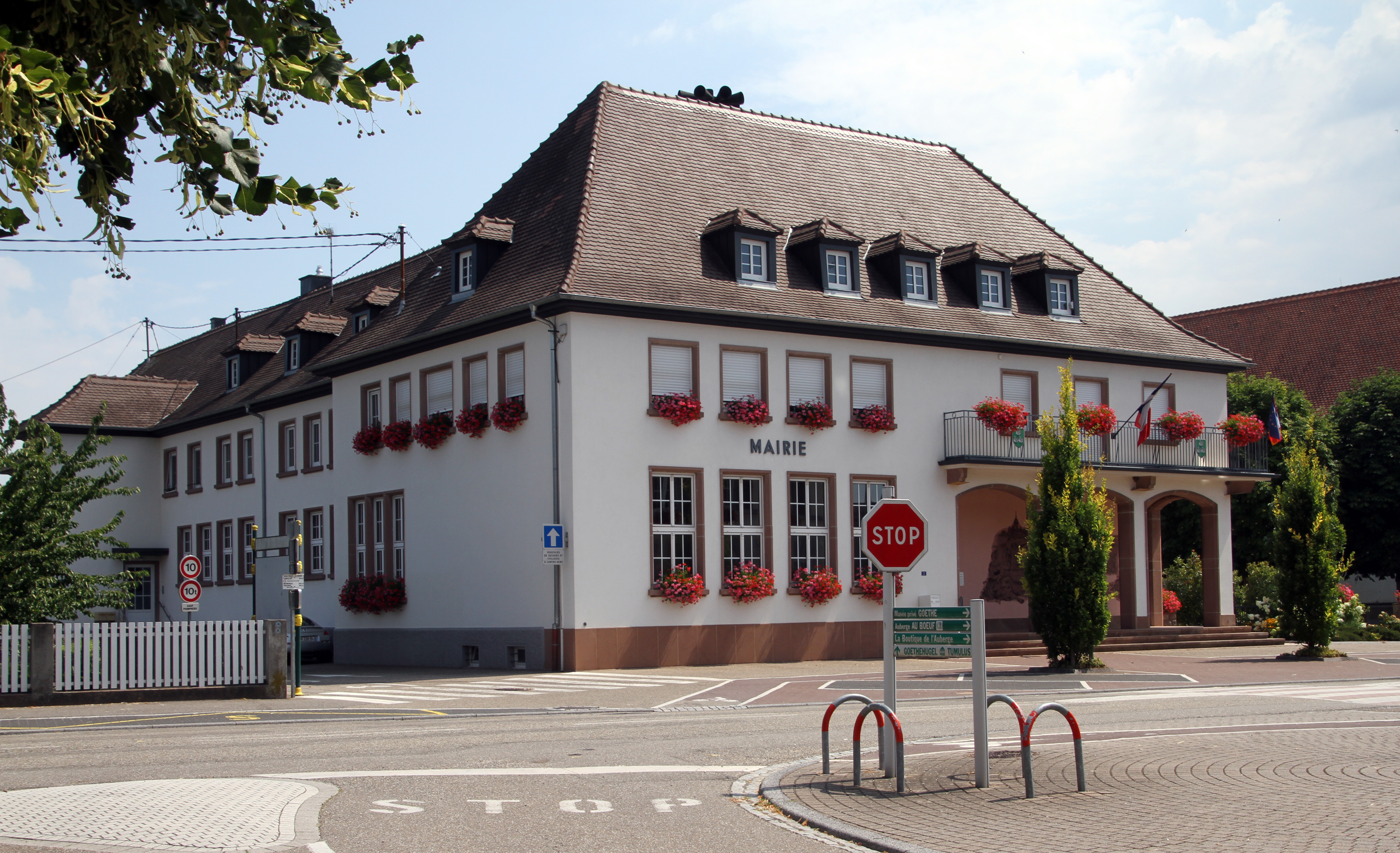 City hall of Sessenheim.